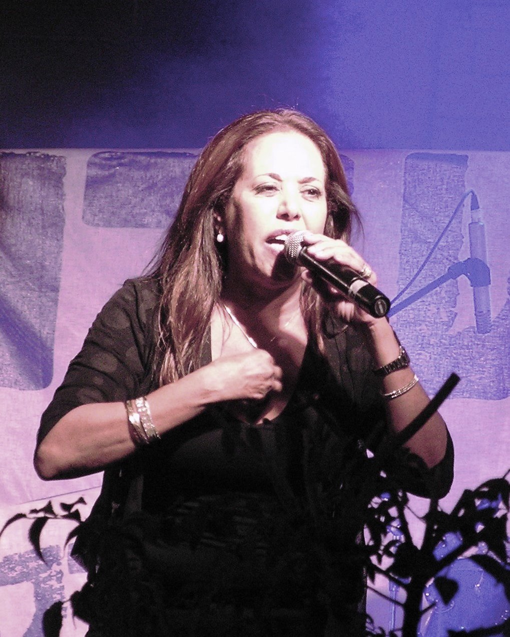 Margalit Tzan'ani